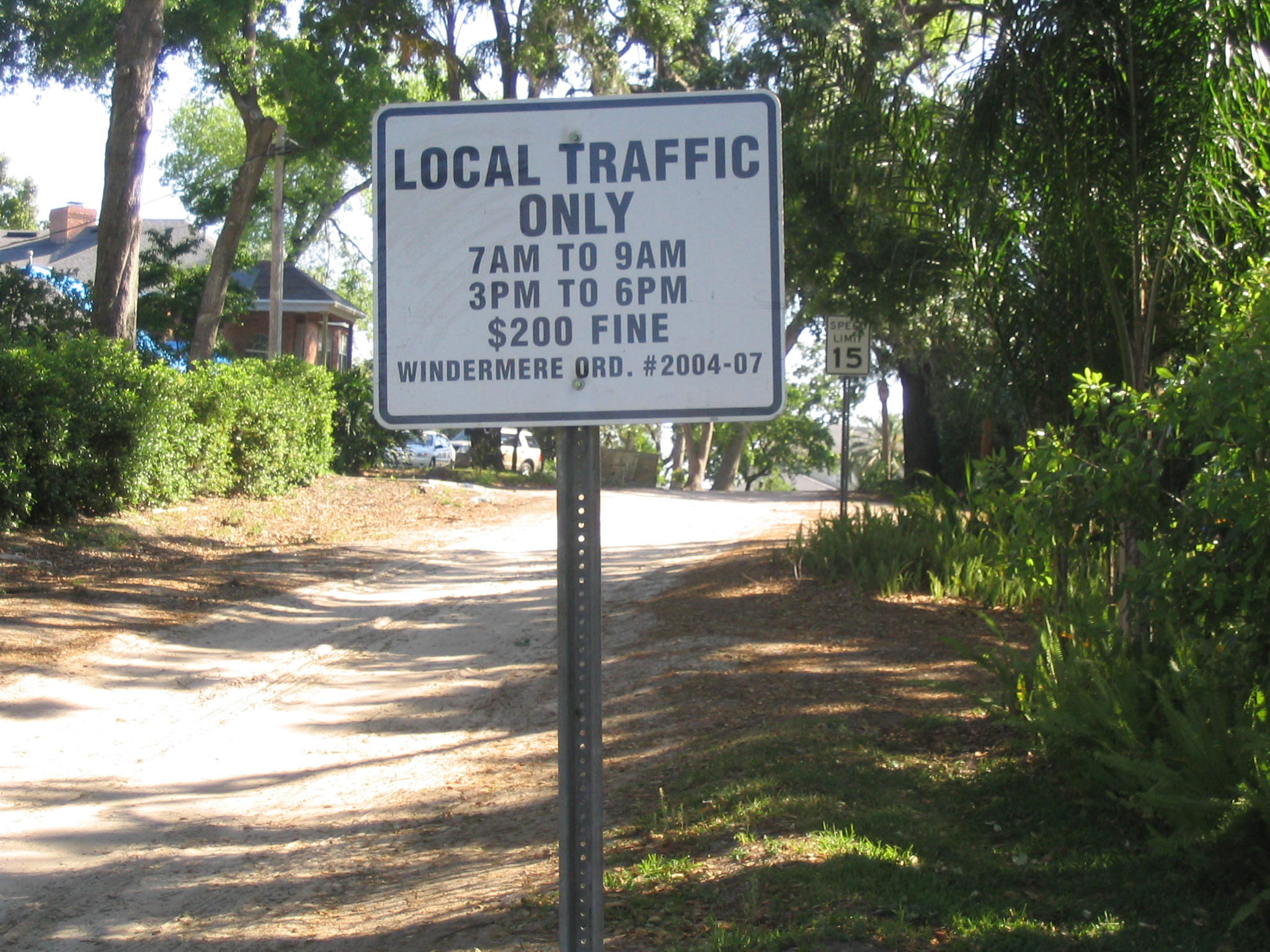 Lee Street at Sixth Avenue.